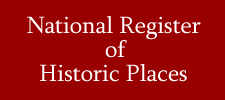 Logo used for the National Register of Historic Places